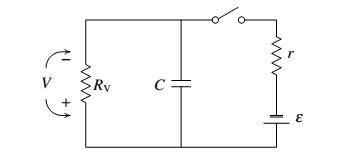 Carga e descarga de um condensador.